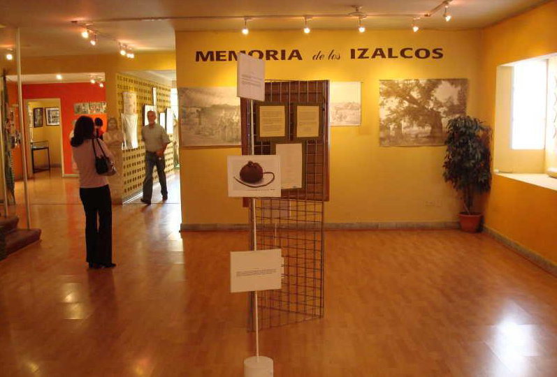 MUPI